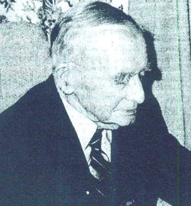 Photograph taken by me in 1984